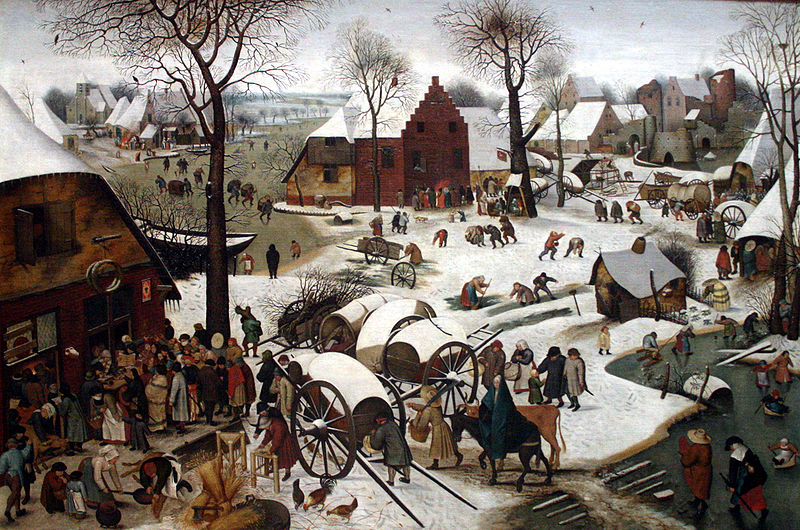 Census in Bethlehem by Pieter Brueghel the Younger